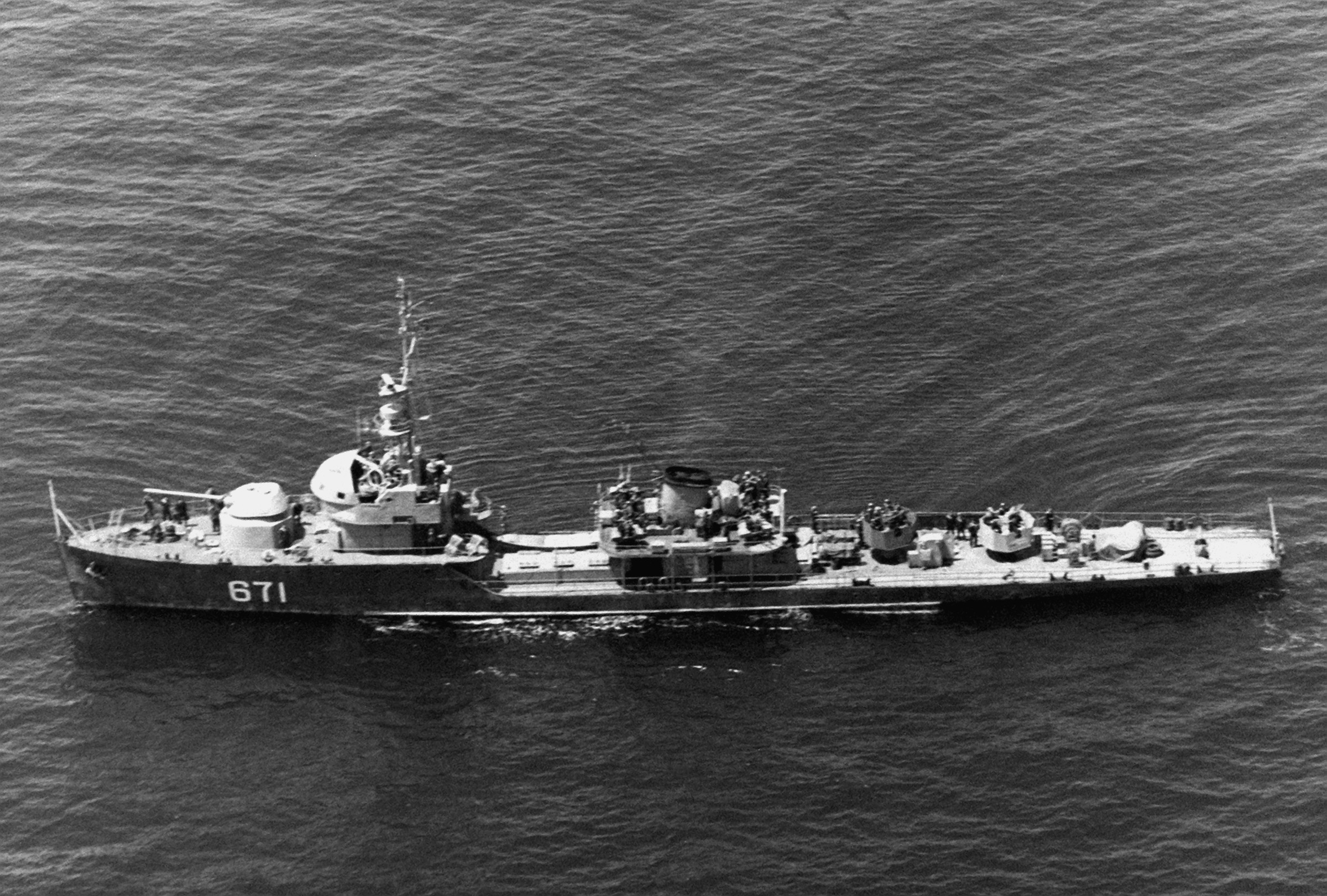 Aerial port side view of a North Korean Navy T-Class patrol combatant. The unit was built in 1938 for the Russian Navy and transferred to North Korea during the mid-1950's.